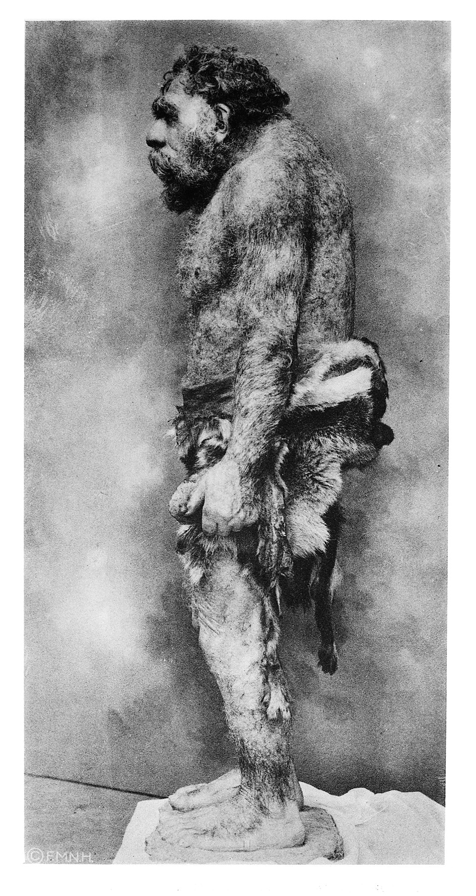 Restoration of a Neanderthal man in profile. "Diorama of Neandertals in an American museum during the 1930's reflecting the misconception reinforced by Marcellin Boule's description of them as dull-witted, brutish, ape-like creatures." [1] Wellcome Images Keywords: Prehistory